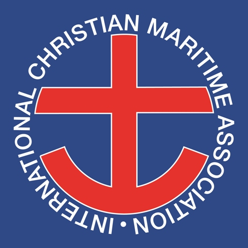 International Christian Maritime Association logo